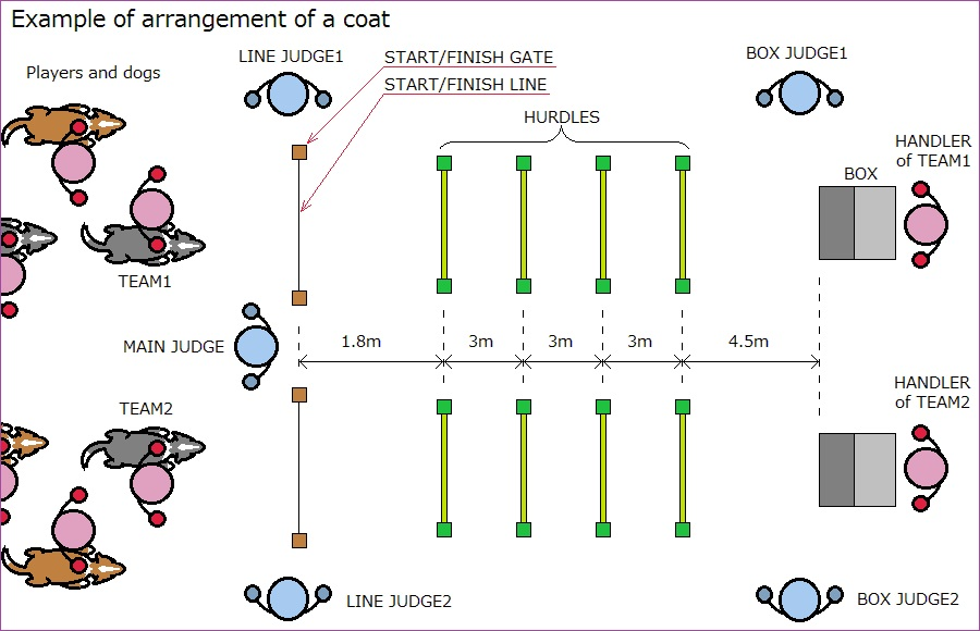 Example of a flyball ground